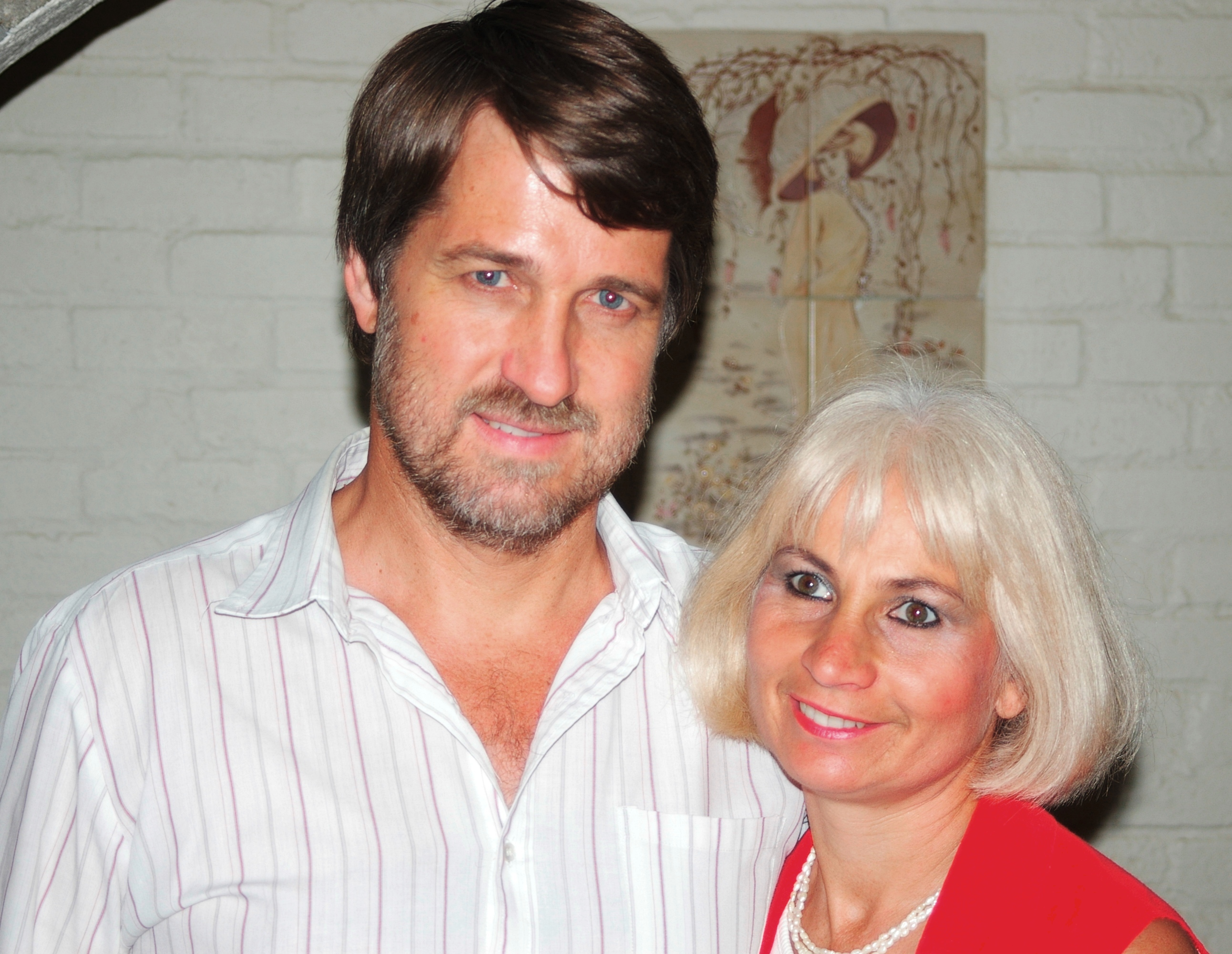 Herman and Lisa Janse van Rensburg, founders of False Bay High School